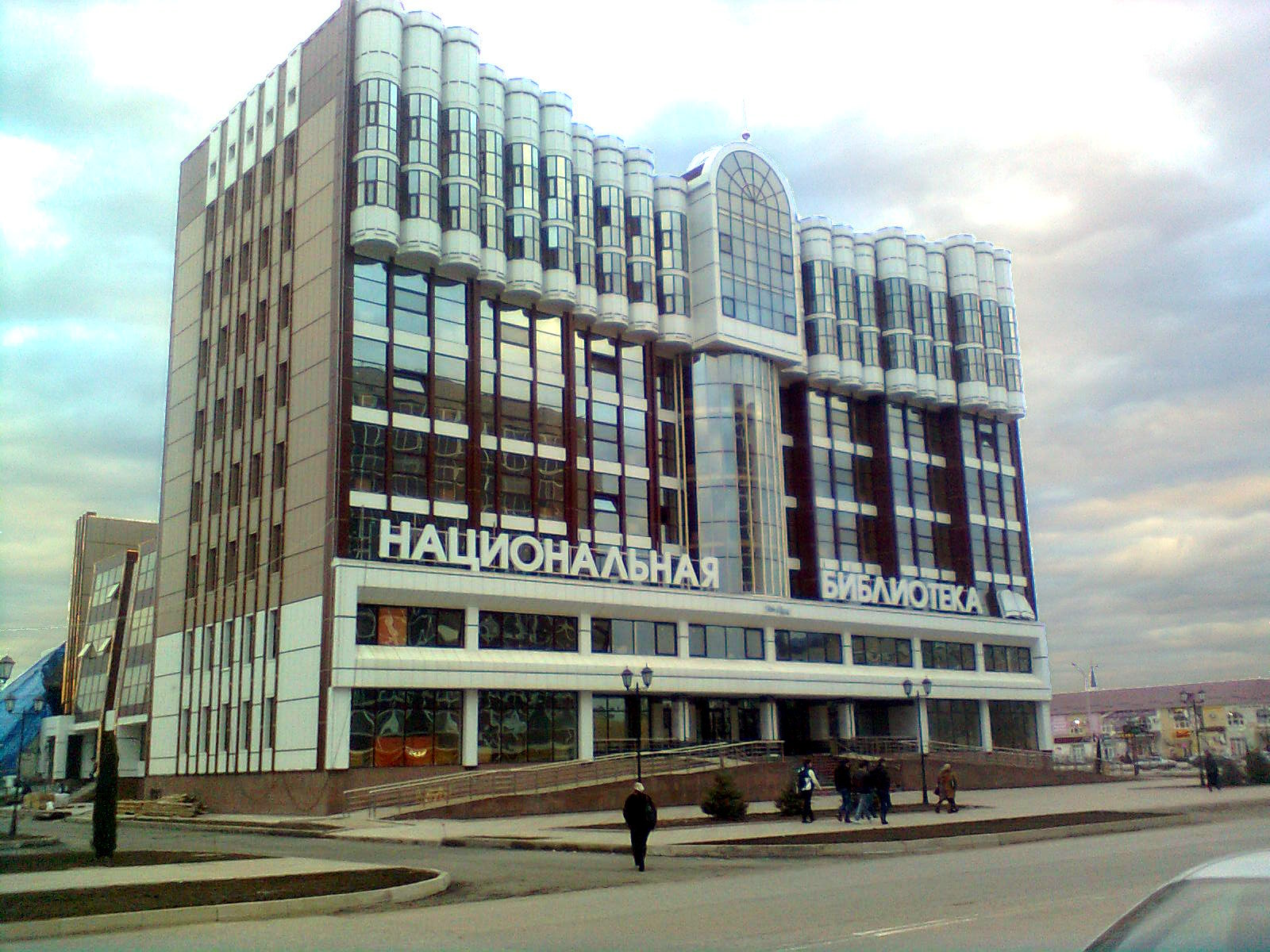 National Library of the Chechen Republic